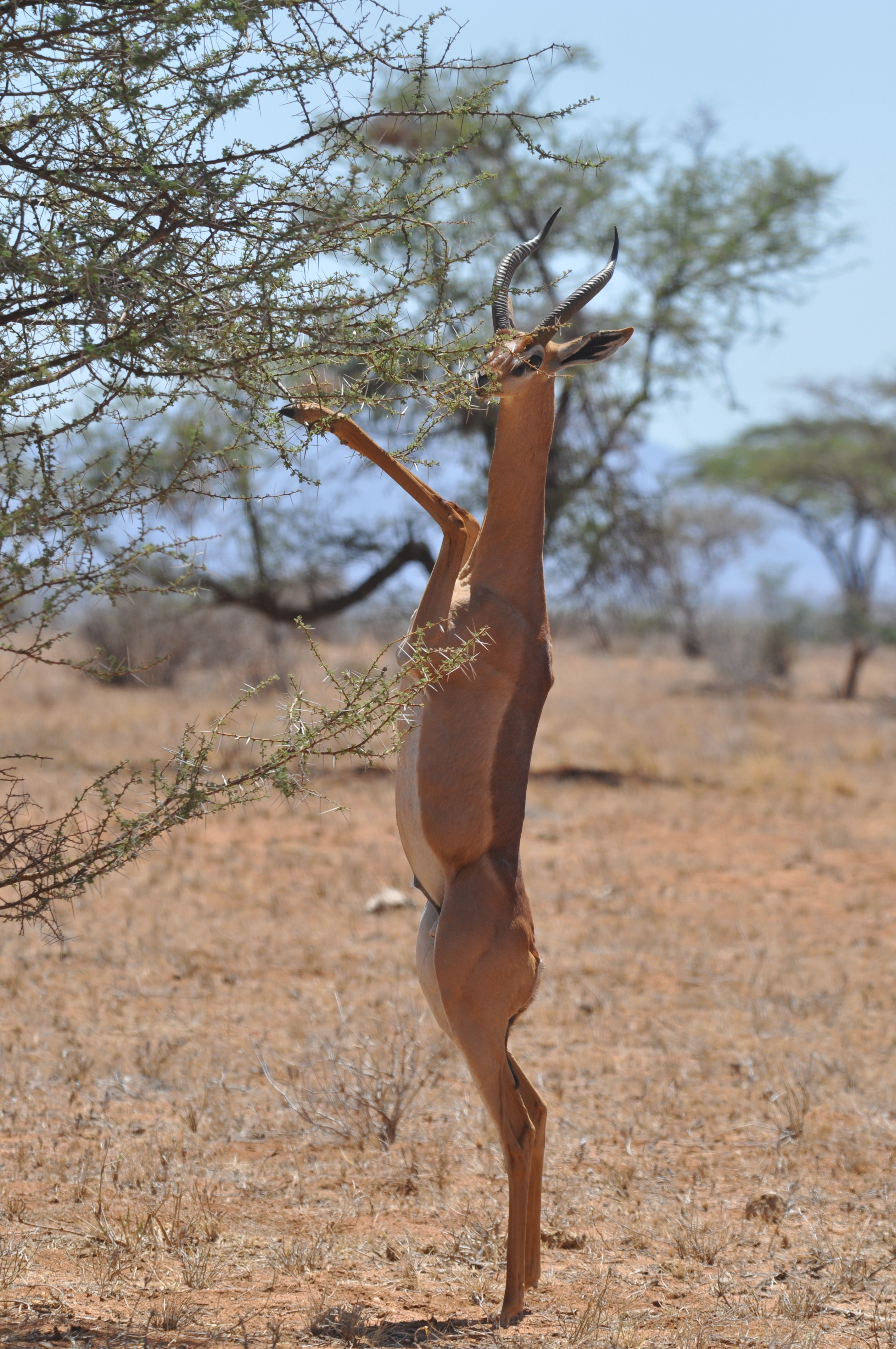 A gerenuk stands in two legs to reach up to a tree. Photo taken in Samburu National Reserve, Kenya, in October 2014.